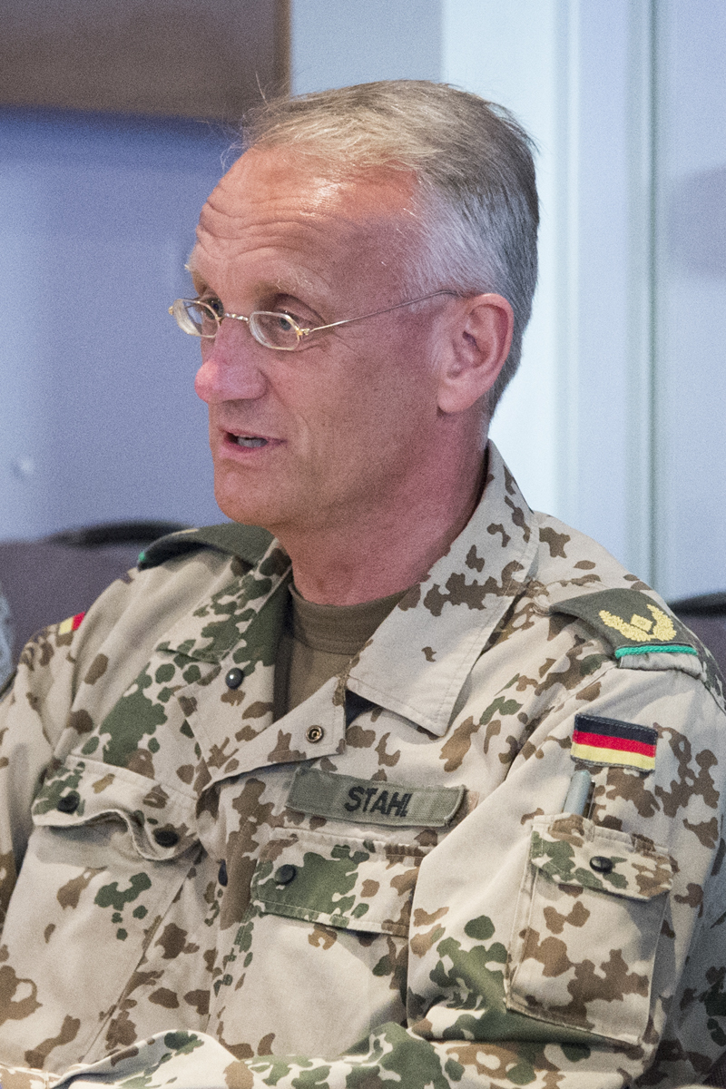 Marine Corps Gen. Joe Dunford, chairman of the Joint Chiefs of Staff, and Army Gen. John W. Nicholson Jr., commander, Resolute Support Mission and U.S. Forces Afghanistan, meet with Brig. Gen. Wolf-Jürgen Stahl, Train Advise Assist Command - North commander, during a visit to Mazar-i-Sharif, Afghanistan, March 20, 2018. The senior leaders discussed the current security environment in Afghanistan, the progress of the Afghan National Defense and Security Forces, and the re-posturing of U.S. forces as part of the new South Asia strategy. (DoD Photo by Navy Petty Officer 1st Class Dominique A. Pineiro)